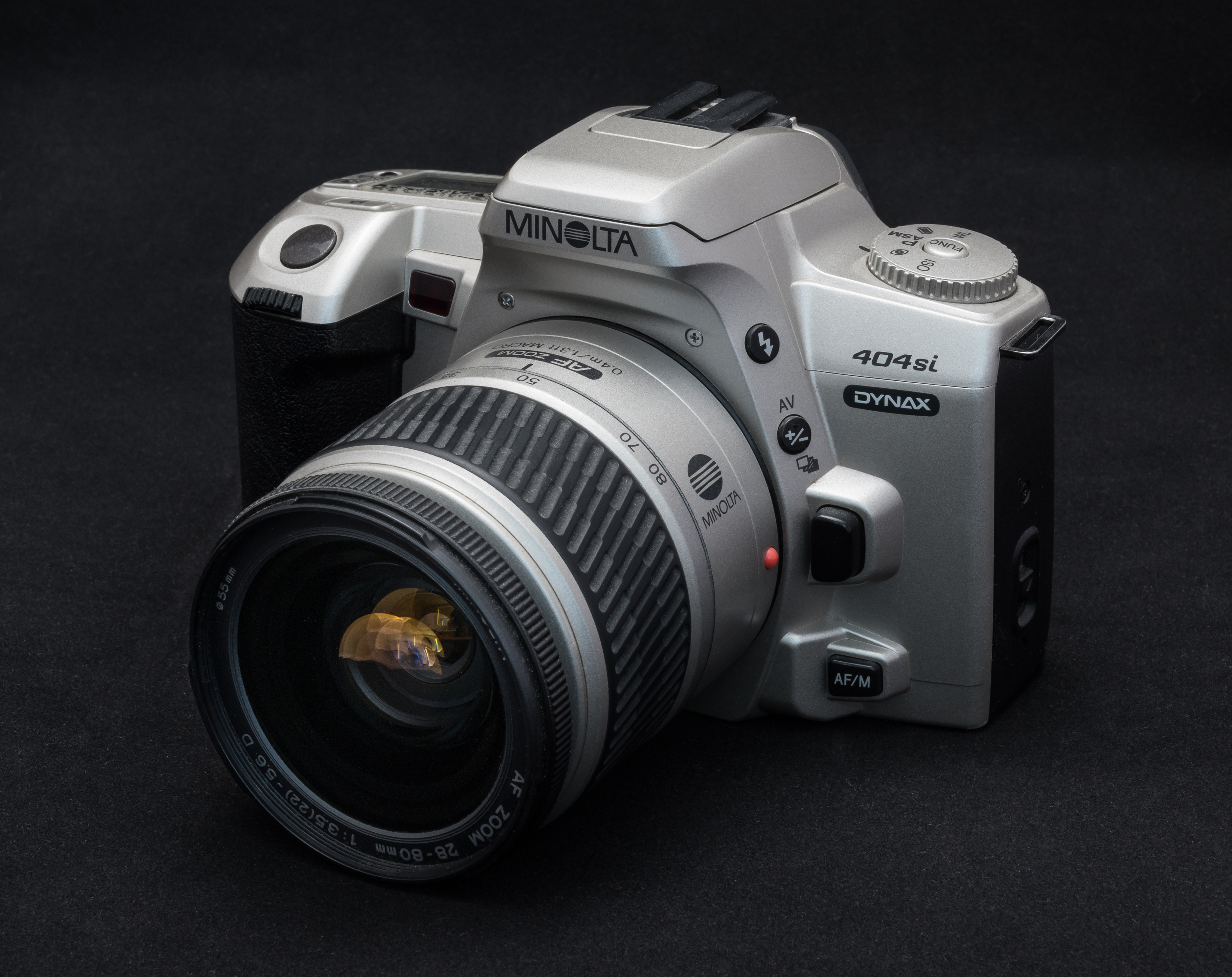 Minolta Dynax 404si